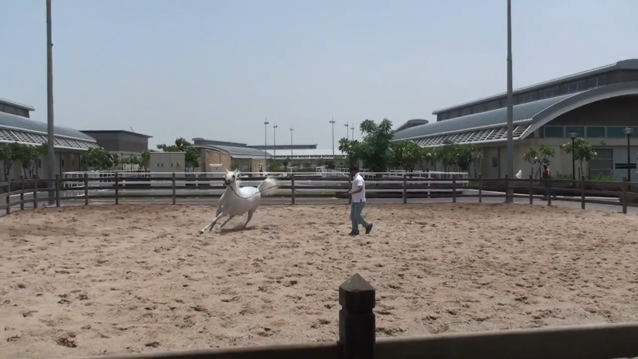 Horse stable at Al Shaqab Equestrian Complex in Al Rayyan, Qatar.